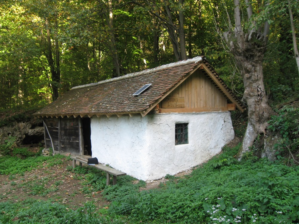 Valjavica of family Tomašević in Bistrica, Petrovac na Mlavi- general look